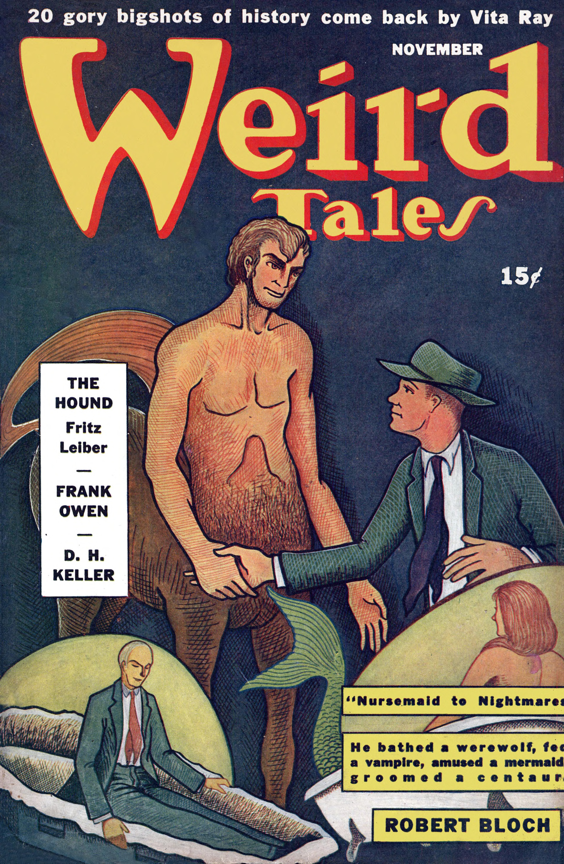 Cover of the pulp magazine Weird Tales (November 1942, vol. 36, no. 8) featuring Nursemaid to Nightmares by Robert Bloch. Cover art by Richard Bennett.